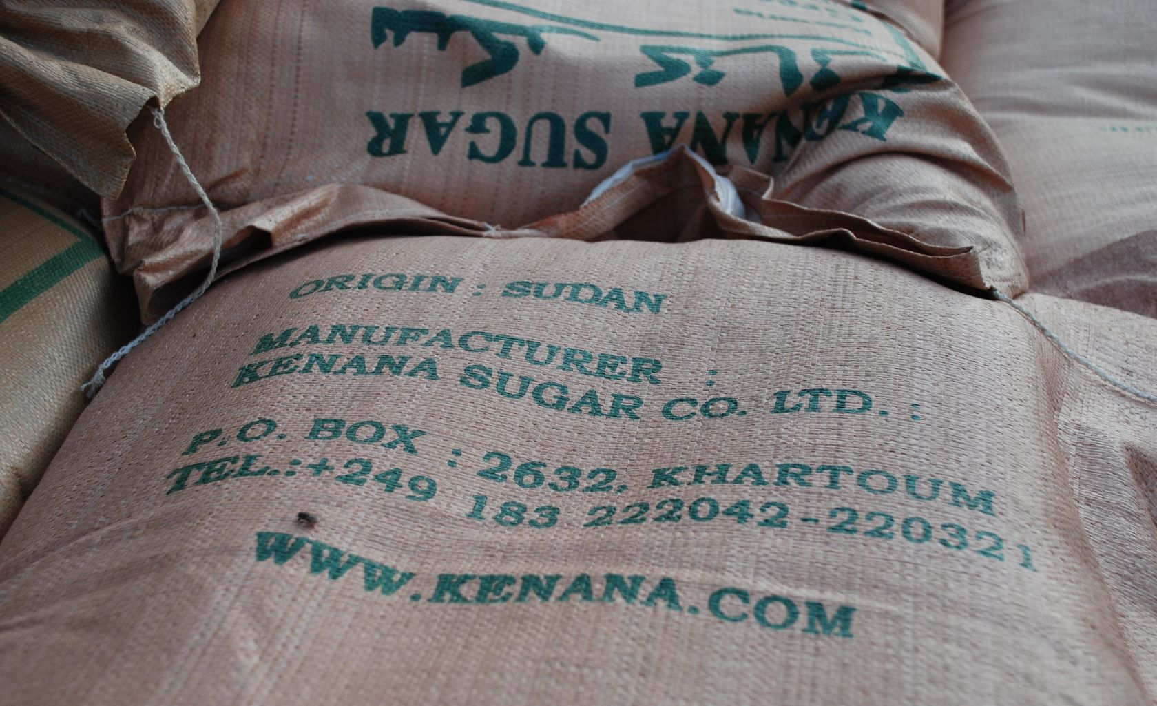 Sack with Kenana sugar, Kosti market, Sudan